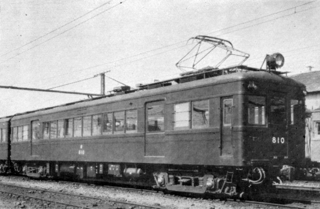 Hankyu 810.